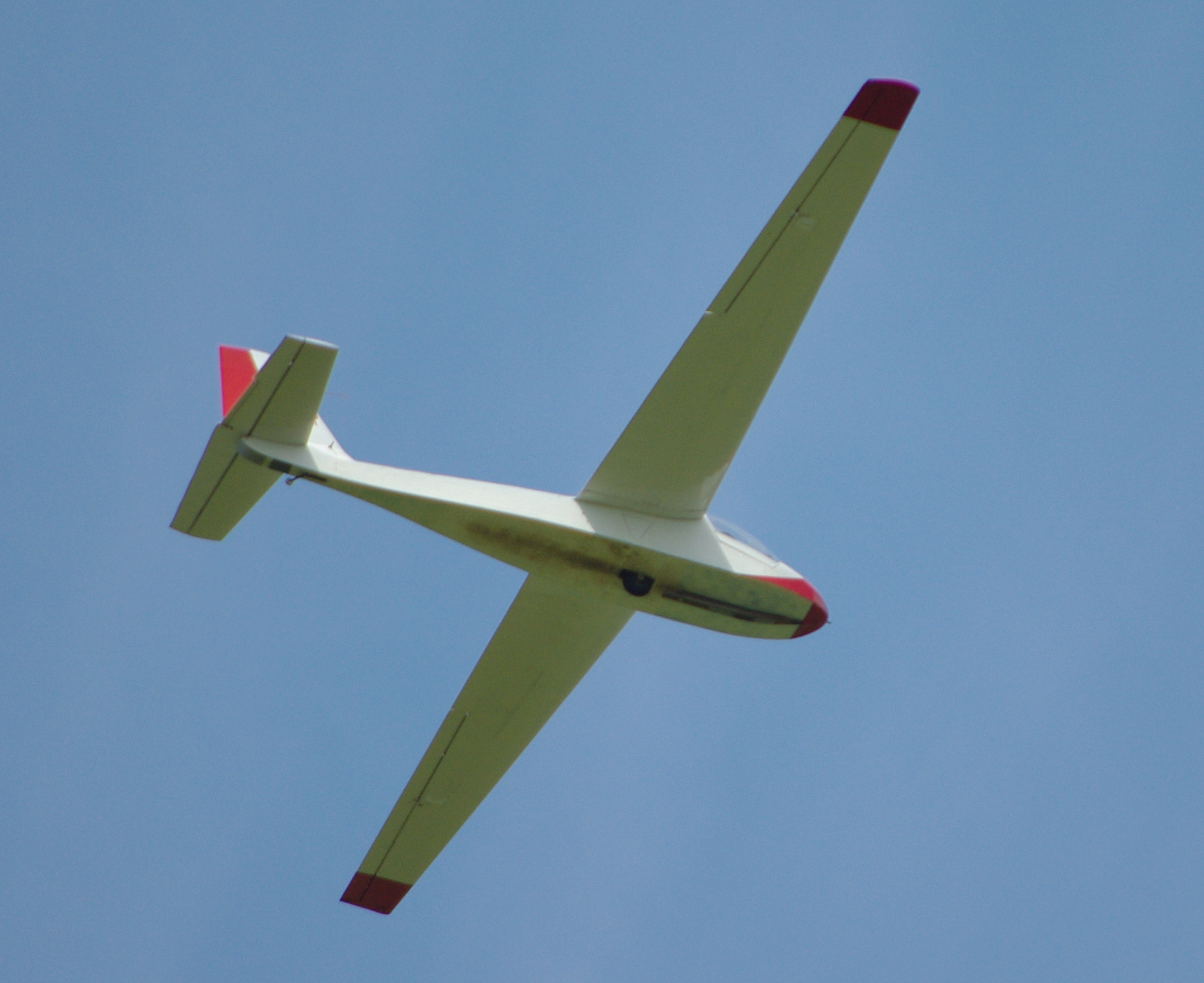 Slingsby T.49 Capstan BUR/BGA1248 at the Vintage Glider Rally, Camphill, June 2011